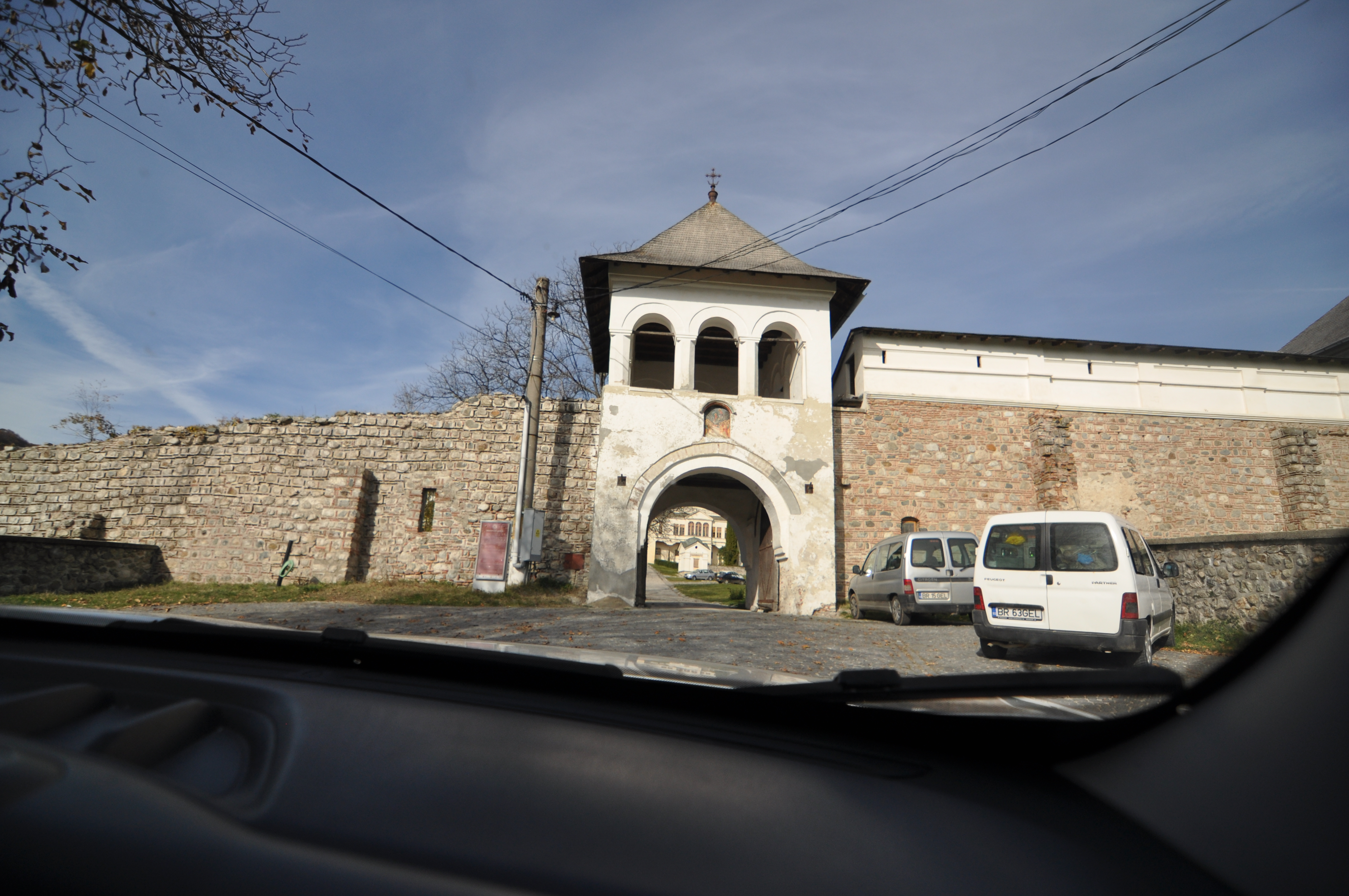 Hurezi Monastery Monastery of Horezu UNESCO World Heritage list Brâncovenesc architectural style [incomplete list of buildings] Constantin Brâncoveanu [1654 – 1714] was Prince of Wallachia between 1688 and 1714. Wallachia 11